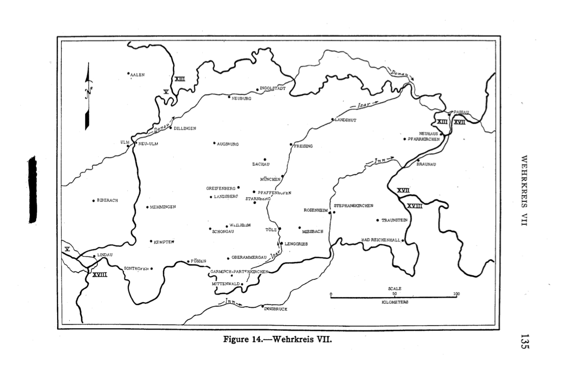 Map of the Wehrkreis, Military District, VII.